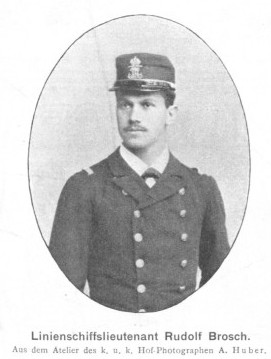 Photograph of Rudolf Brosch, Austrian fencer, skier and ship officer.